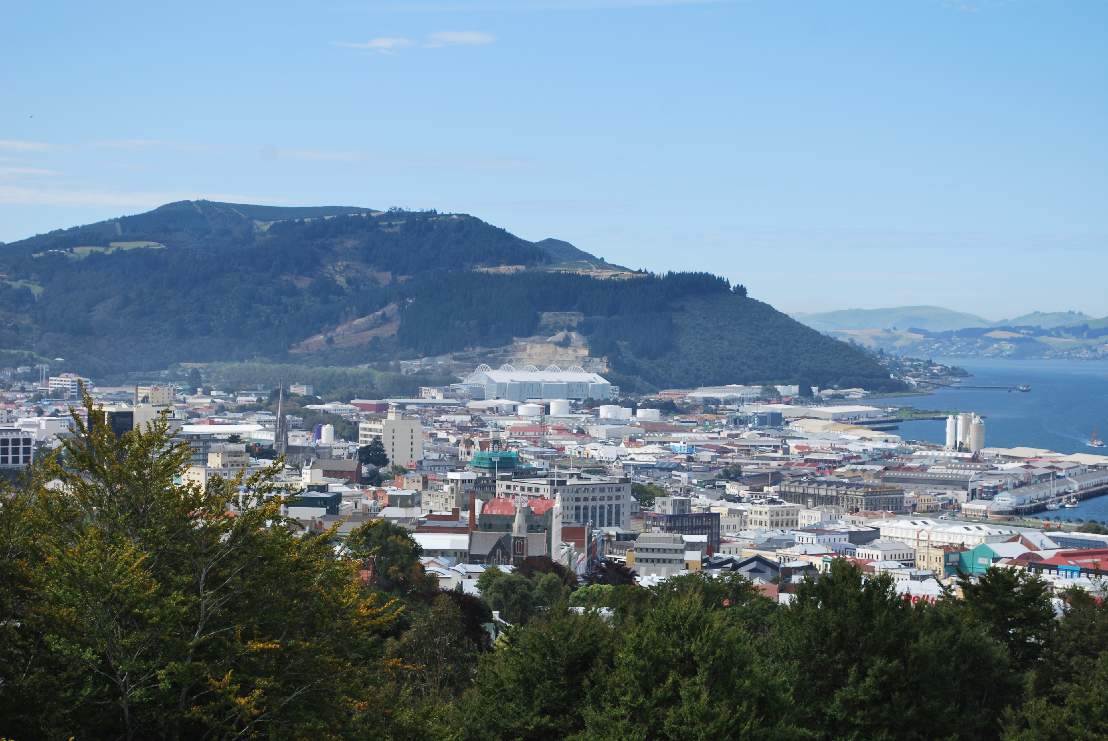 Dunedin, New Zealand seen from the Unity Park lookout